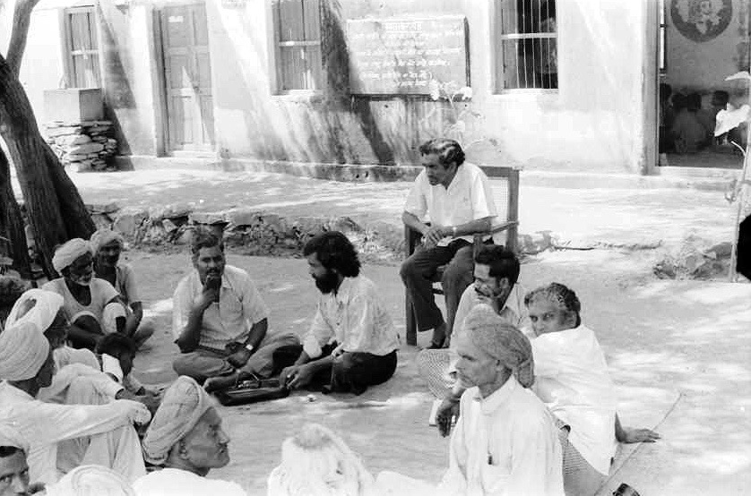 The Jawaja Experiment, an early precursor of grass-roots NGOs, was led by Ravi Matthai. Jawaja village is located in Rajasthan, India. Seen here are Ravi Matthai and Raaj Sah with villagers in 1975. Sitting on the chair is Ravi Matthai, the first full-time Director of Indian Institute of Management Ahmedabad (IIMA). The individual with beard and long hair is Raaj Sah, subsequently Professor at the University of Chicago, who worked on the project during and after his MBA studies at IIMA. Among his contributions to the Experiment were that Ravi Matthai and he together were the first on the ground and, starting from nothing, they began organizing and implementing the work of poverty alleviation. The project focused on Jawaja's leather and handloom artisans, the two poorest communities at that time.